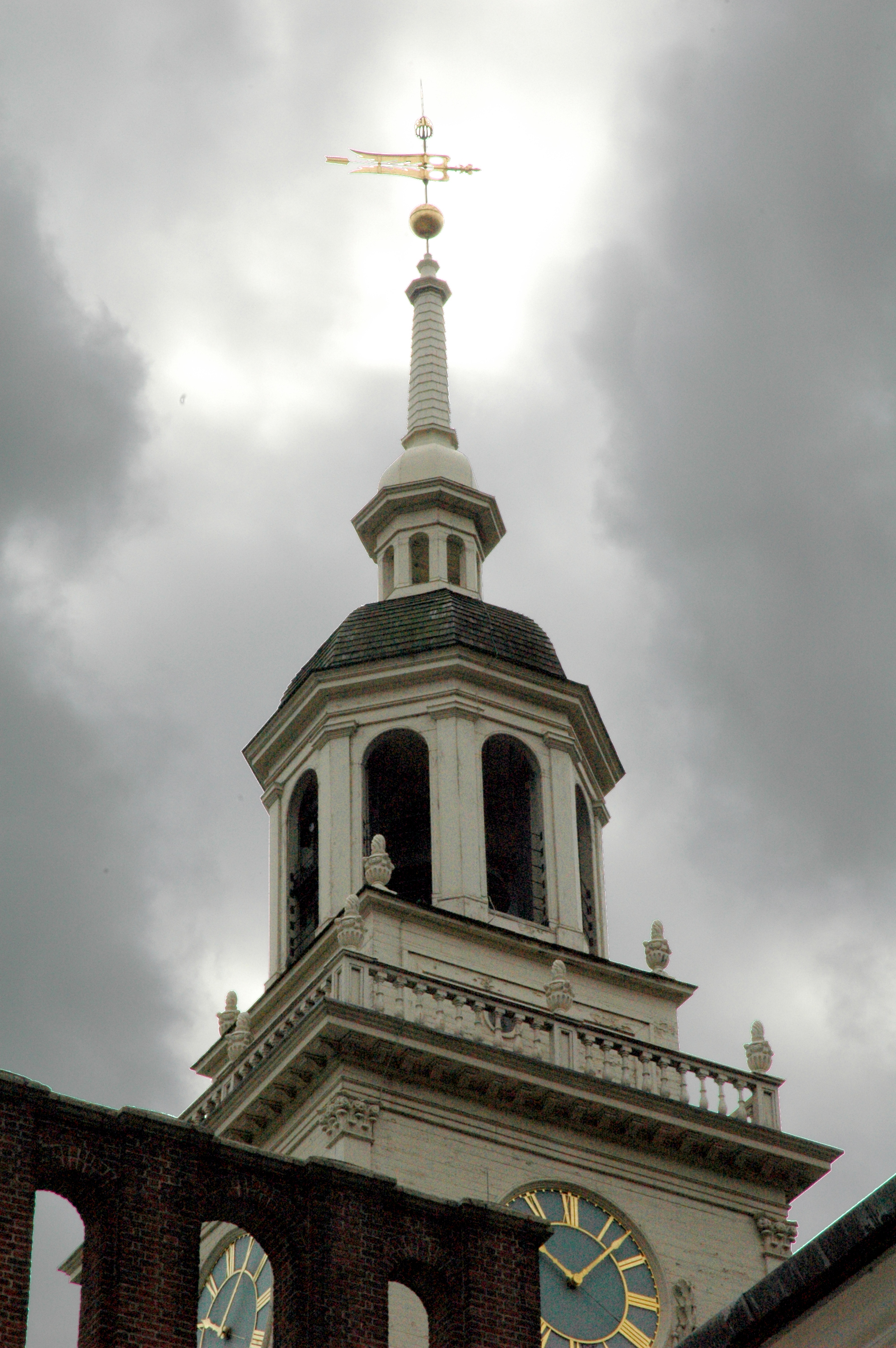 The belltower atop Independence Hall in Philadelphia, Pennsylvania on a cloudy day.